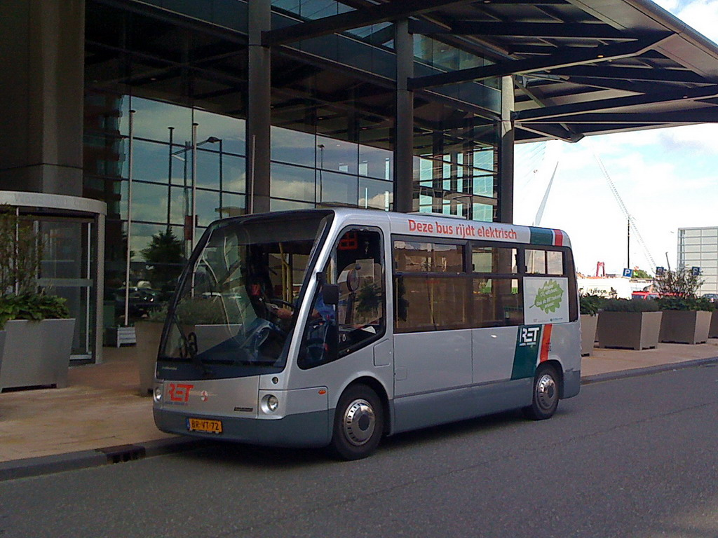 BredaMenarinibus Zeus minibus (reg. BR-VT 72) in Rotterdam, Netherlands.